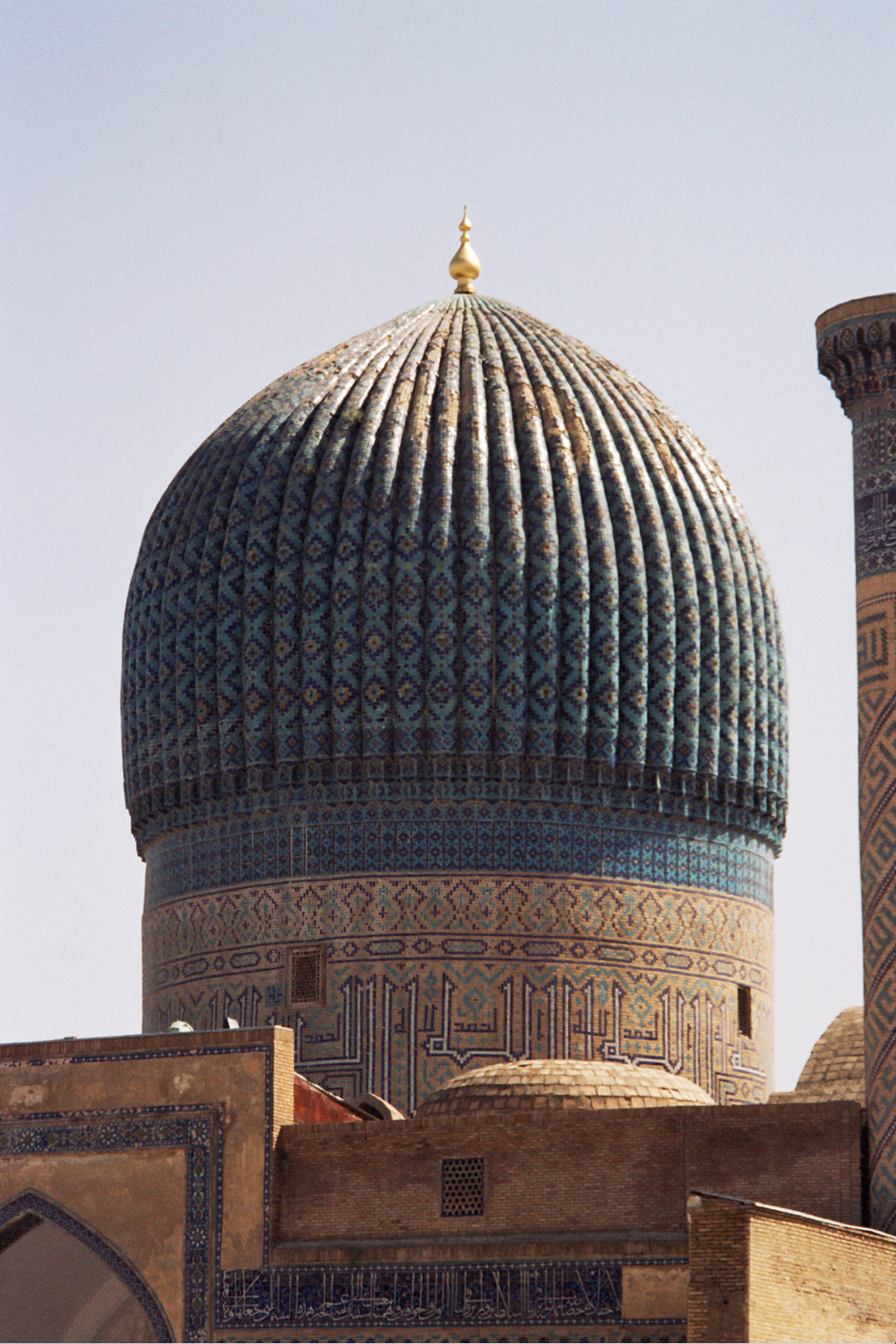 close up of the the dome